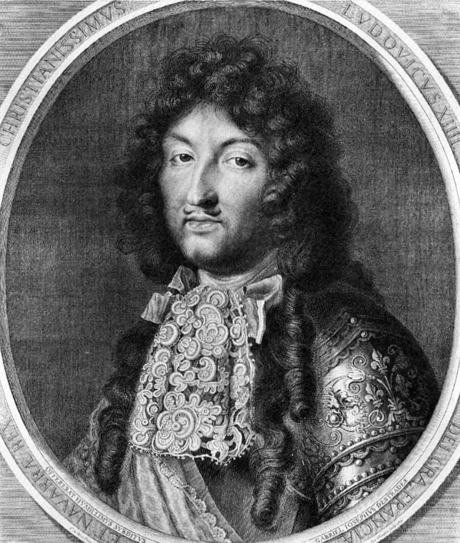 Portrait of Louis XIV of France